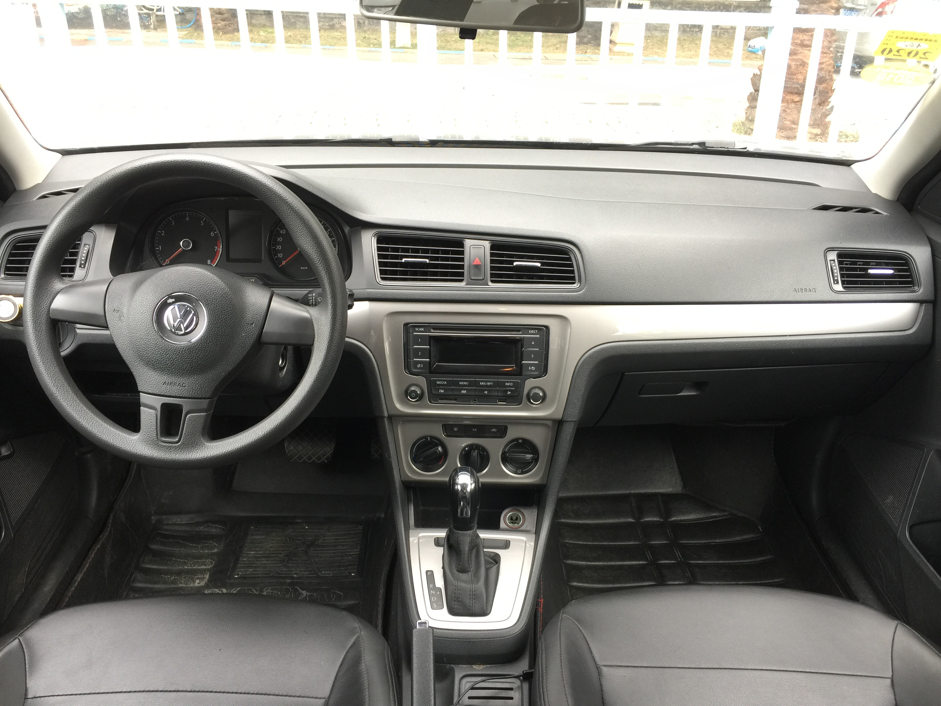 Interior of the second generation of Volkswagen Lavida. Taken in Zhuhai, Guangdong province, China. 中文（中国大陆）: 大众朗逸第二代的内装，摄于中国广东省珠海市。